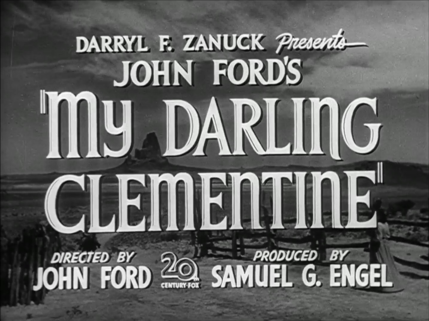 My Darling Clementine - trailer (cropped screenshot)